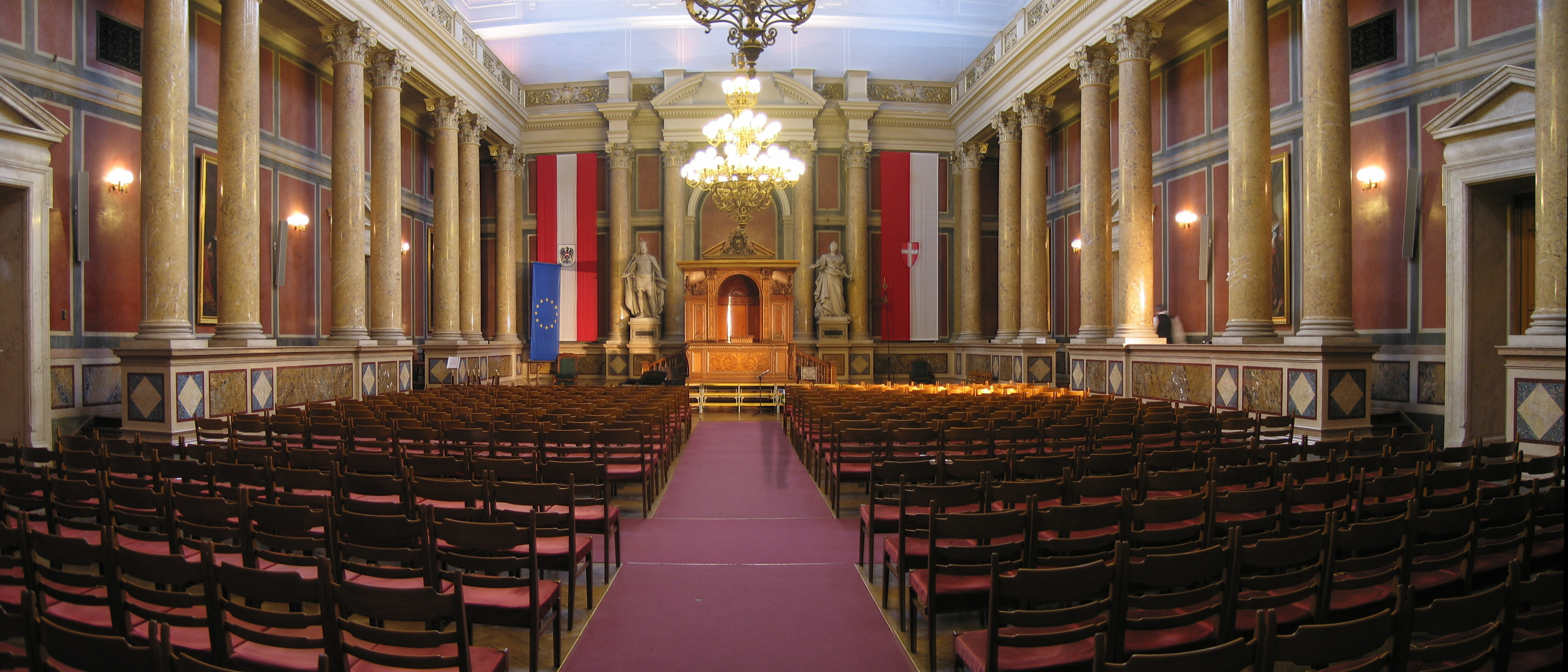 Ceremonial hall of the University of Vienna. Panoramic image generated using Autostitch.